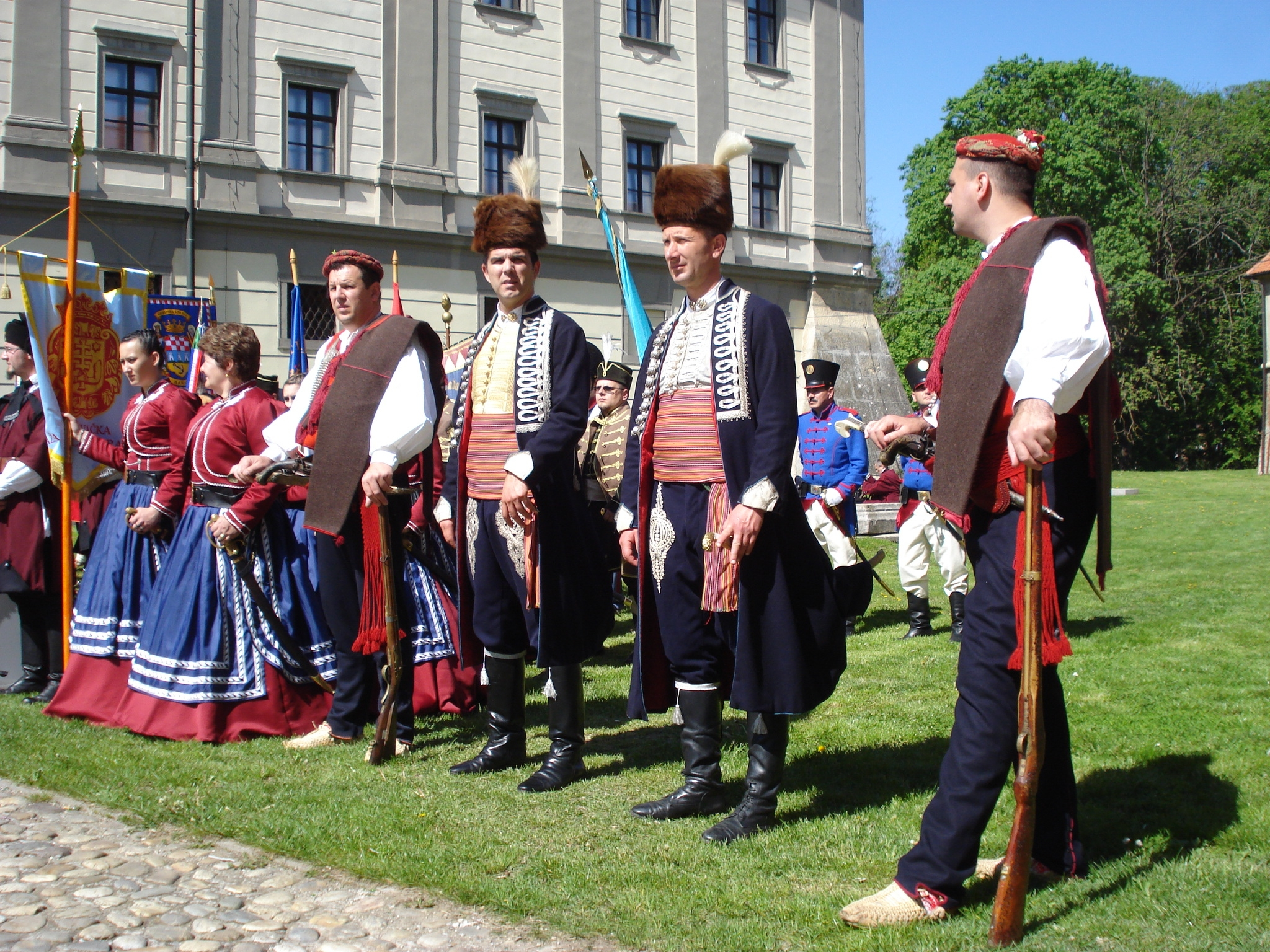 Alkars of Sinj, members of the historical military unit originating from the Town of Sinj, southern Croatia (18th century), among other units during The Medjimurje County Day celebration (30th April 2011) in Čakovec